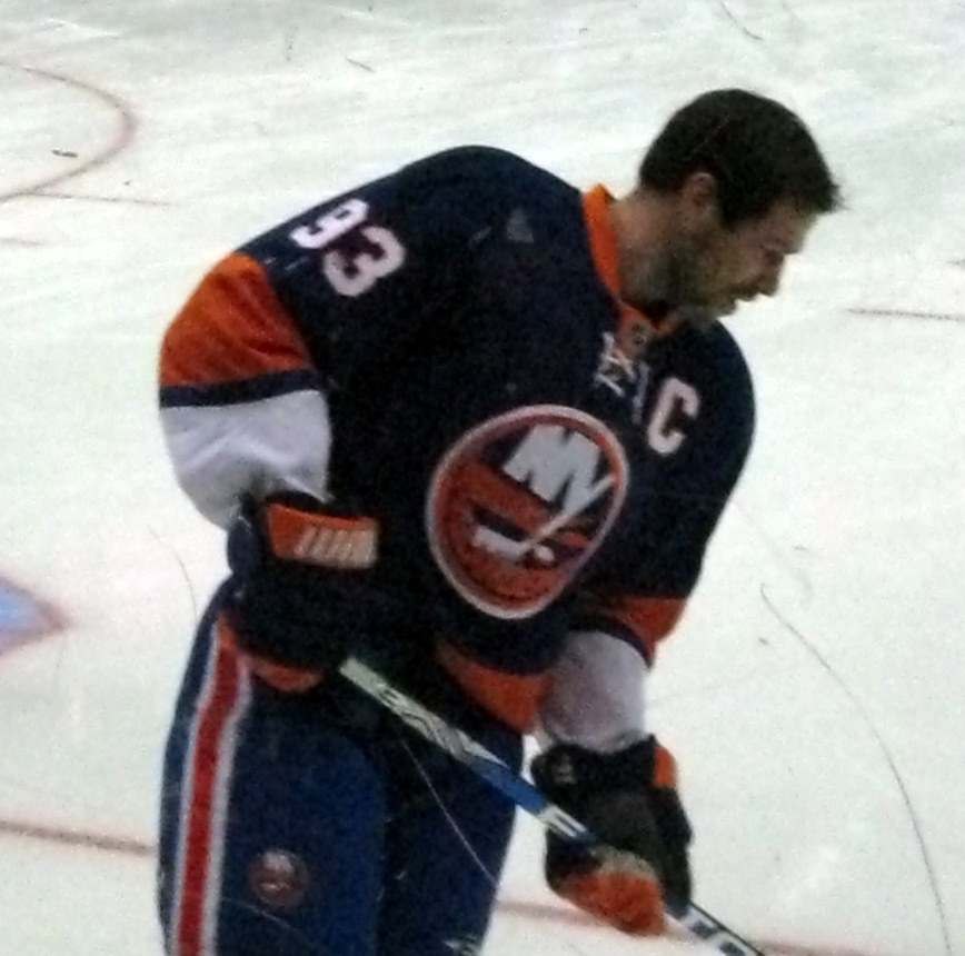 Doug Weight in warm-ups prior to the New York Islanders vs. Carolina Hurricanes - February 6, 2010